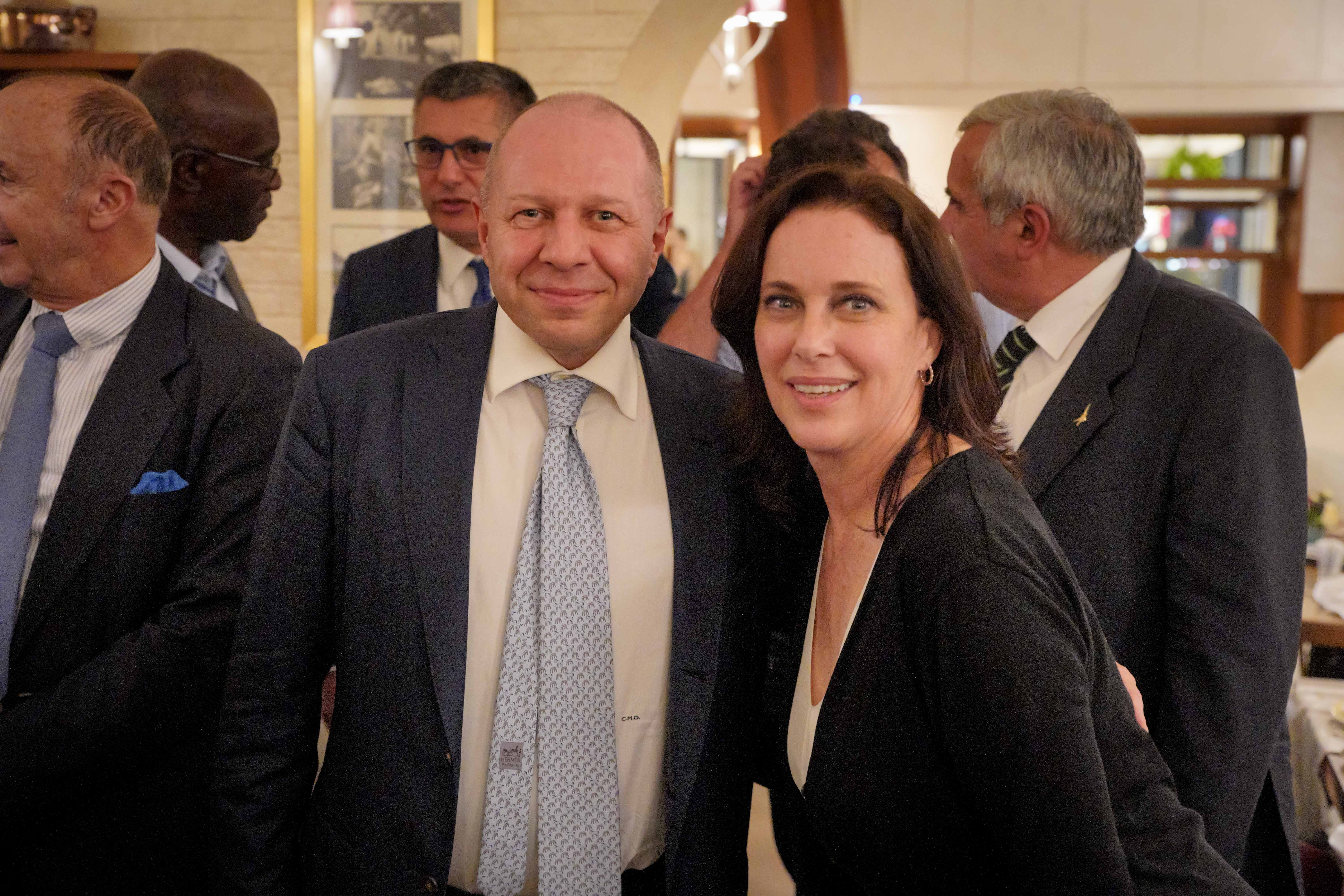 SECRETARY GENERAL ITALY-USA FOUNDATION CORRADO MARIA DACLON; ACTRESS CLARISSA BURT